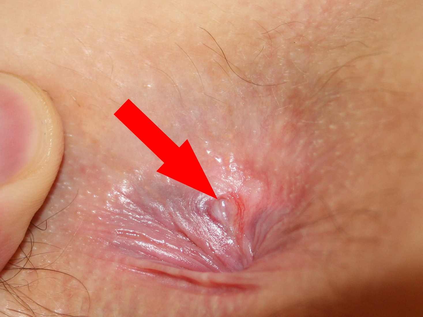 close up photo of anal fissure